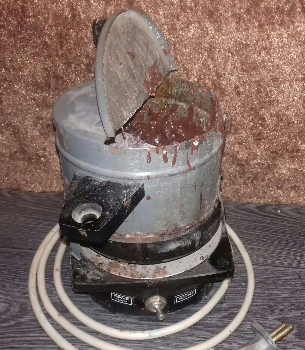 Old Post Wax Wax